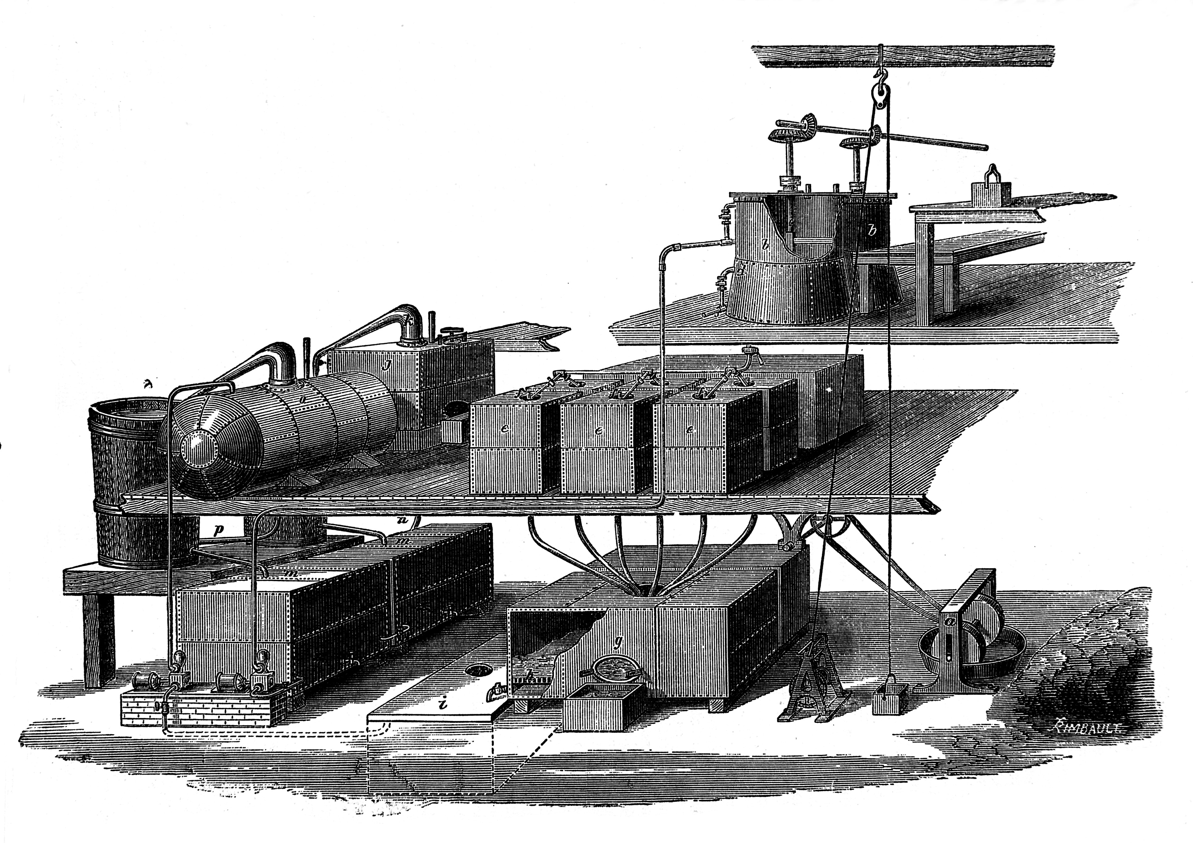 Sectio of Coal Tar Colour Works at Greenford in 1858 & 1873. Plant belonging to W. H. Perkin and his brother, T. D. Perkin. General Collections Keywords: chemistry, manufacturing; chemistry, 19th century